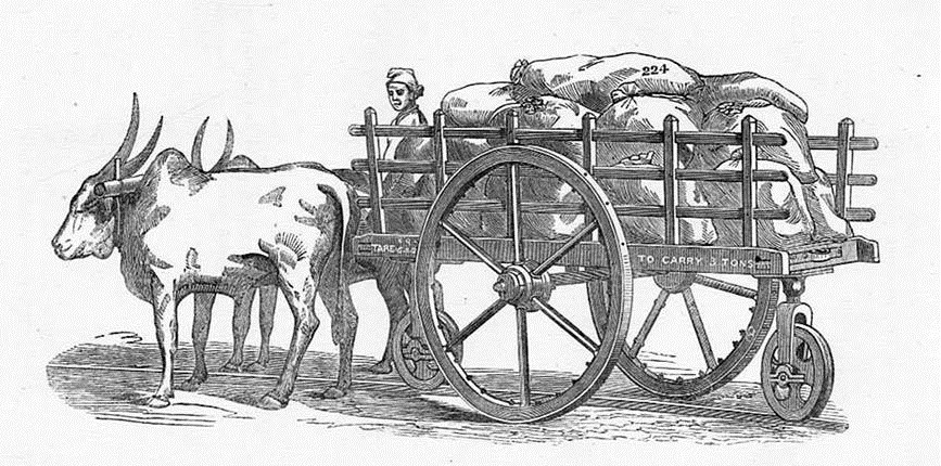 Addis' Single Rail tramway in Roorkee Treatise on Civil Engineering in India. Published by the Thomason College Press at Calcutta 1877